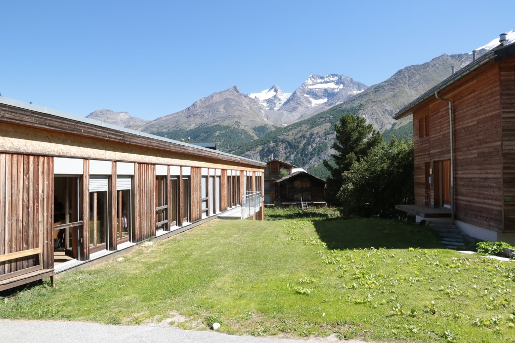 Steinmatte: the EGS campus in the Alps